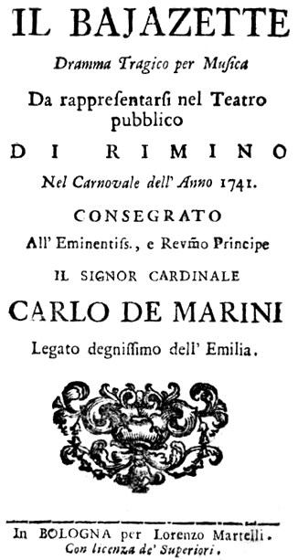 Giovanni Battista Casali - Il Bajazette - title page of the libretto - Rimini 1740